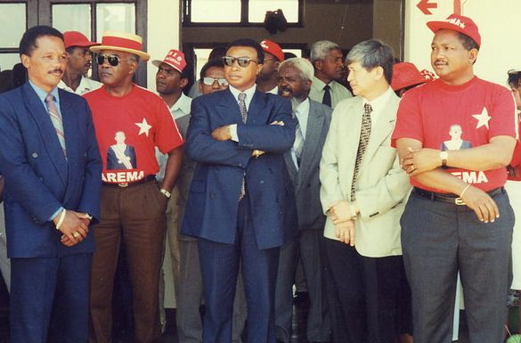 secretaire national de l'AREMA